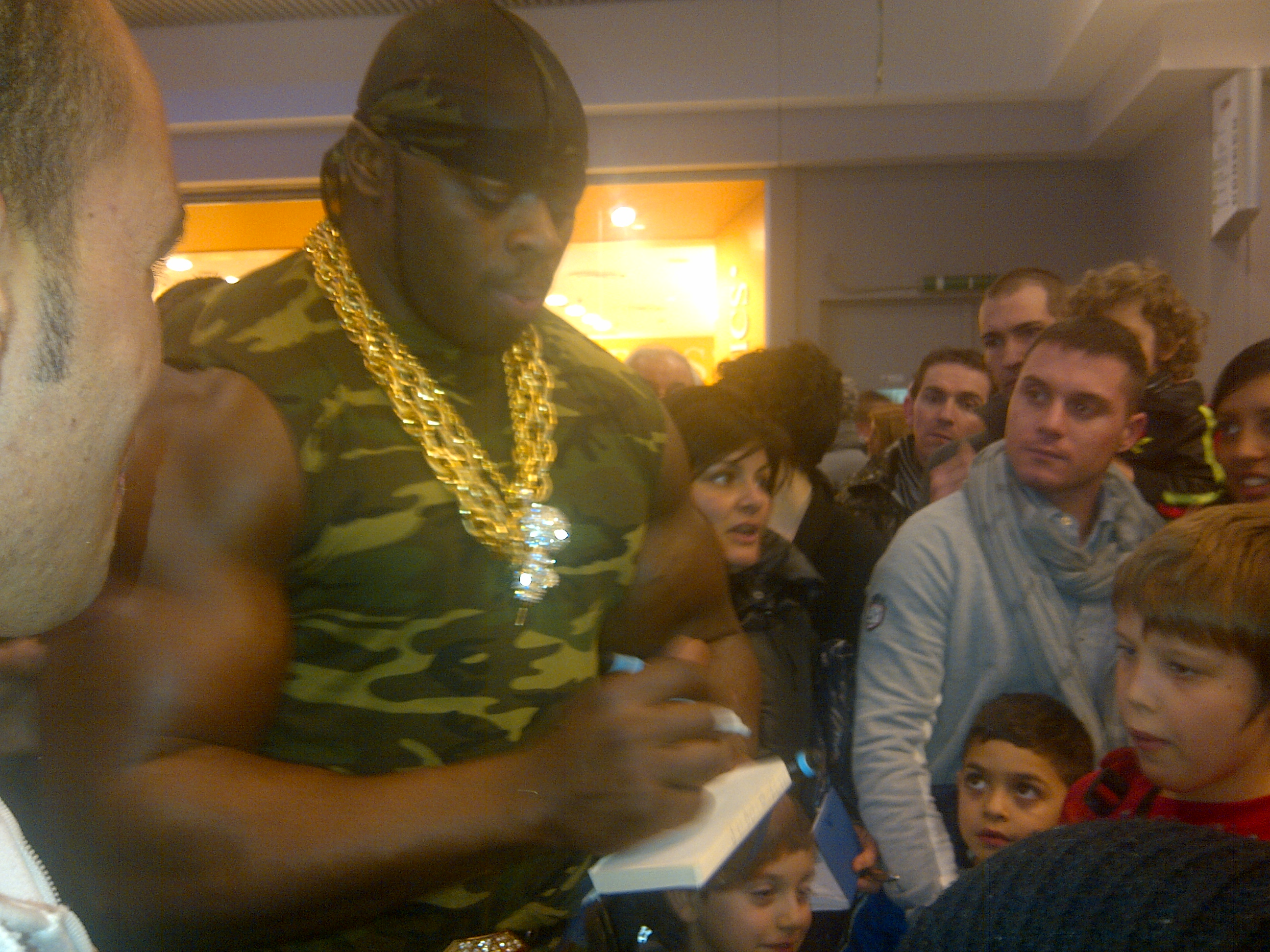 professional wrestler Tiny Iron